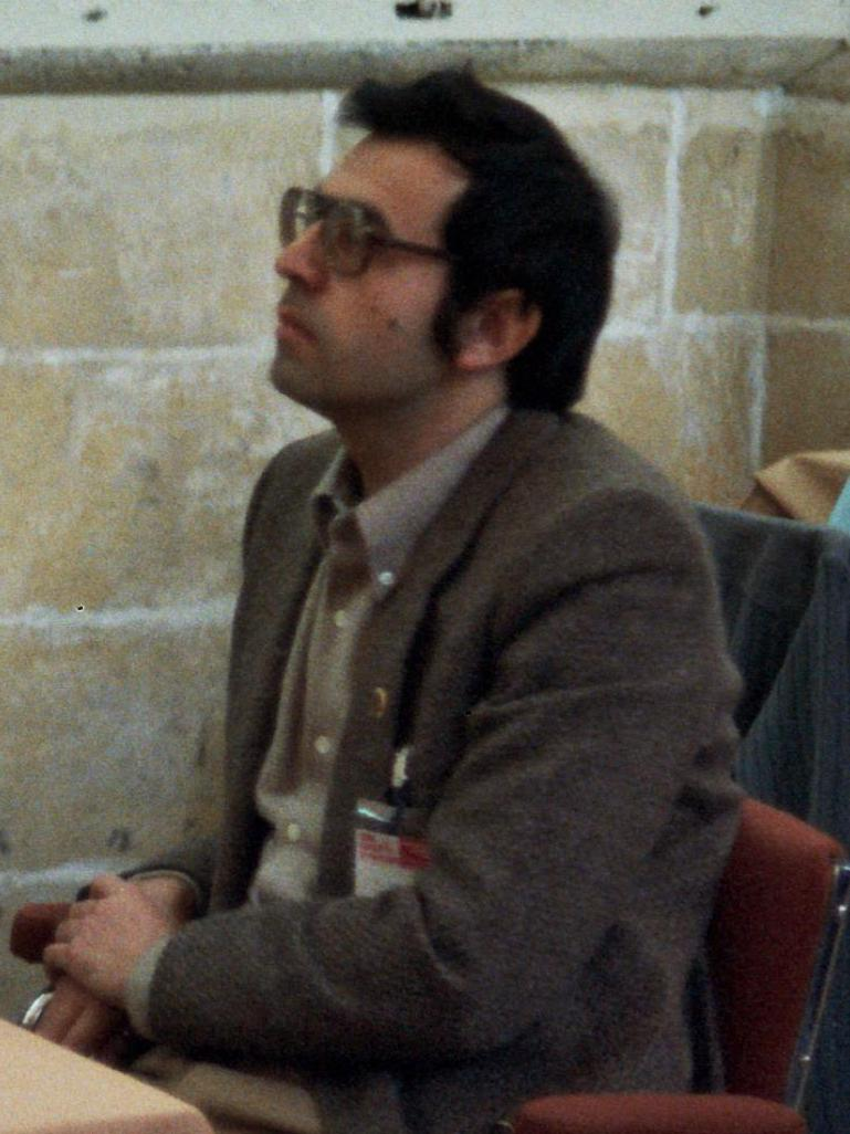 Lev Alburt at the Chess Olympiad 1980 in Malta, Photographer Gerhard Hund.